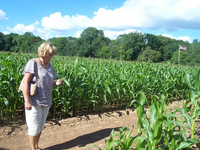 Bickleigh : Getting Lost in the Maize Maze. Jean Hunt gets lost in the Maze of Maize.